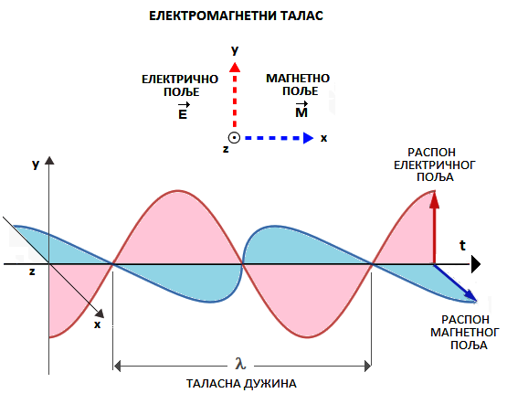 ЕЛЕКТРОМАГНЕТНИ ТАЛАС